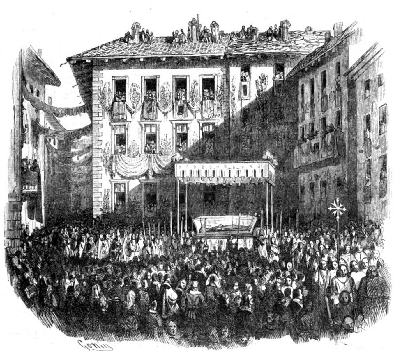 The most famous Italian historical romance,and the masterpiece of Alessandro Manzoni.